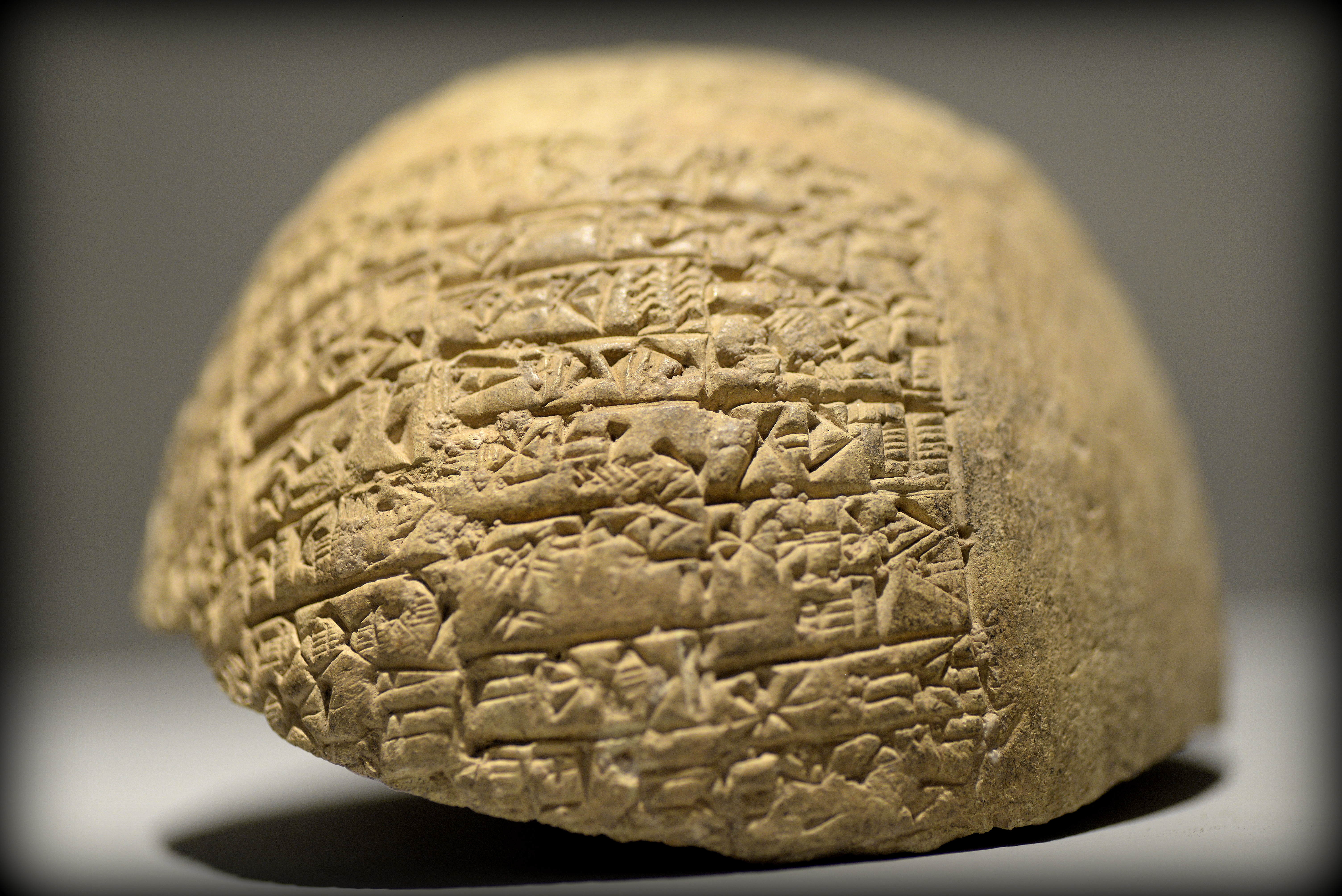 This pottery head of a stand was inscribed with a cuneiform inscription mentioning the name of the Entemena (Enmetena), ruler of Lagash, and dates back to the Early Dynastic Period, C. 2400 BCE. From Southern Mesopotamia, modern-day Iraq. The Sulaymaniyah Museum, Iraq.